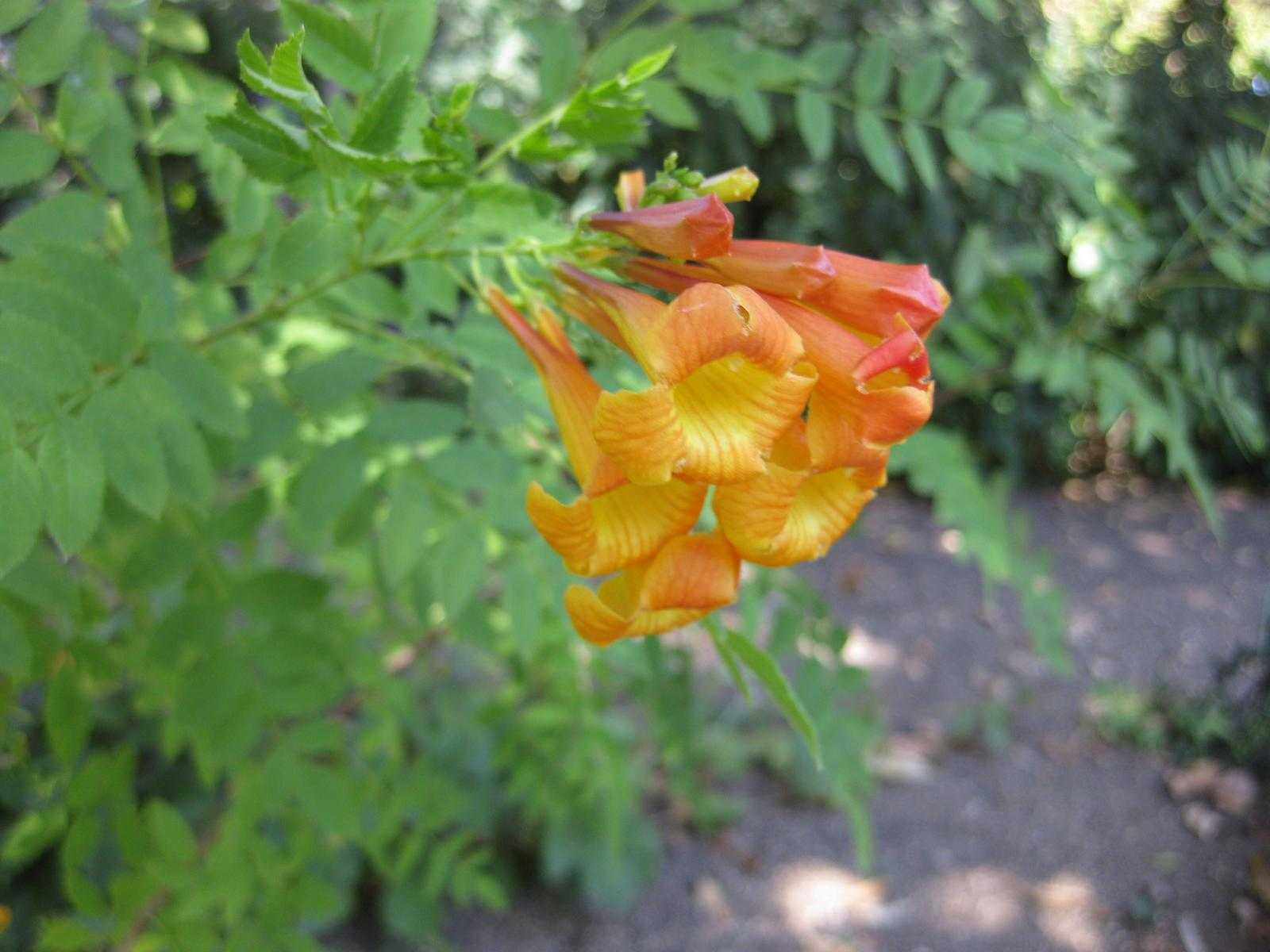 Photographed at Huntington Gardens (Los Angeles) in October